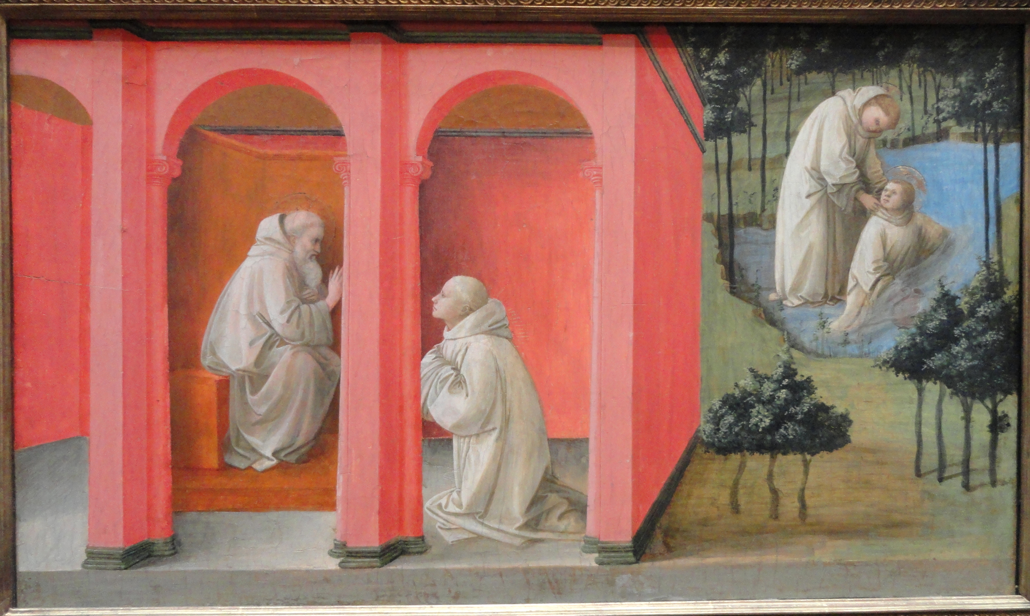 Saint Benedict Orders Saint Maurus to the Rescue of Saint Placidus, by Fra Filippo Lippi, c. 1445-1450, tempera on panel - National Gallery of Art, Washington, DC, USA. This artwork is in the public domain because the artist died more than 70 years ago.